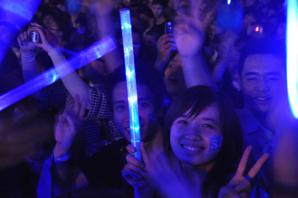 Fans of Korean boy band Super Junior light up Hanoi's My Dinh stadium in blue.